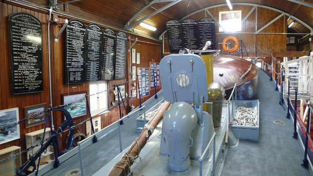 Longhope Lifeboat Thomas McCunn ON 759 now housed in the old lifeboat house museum